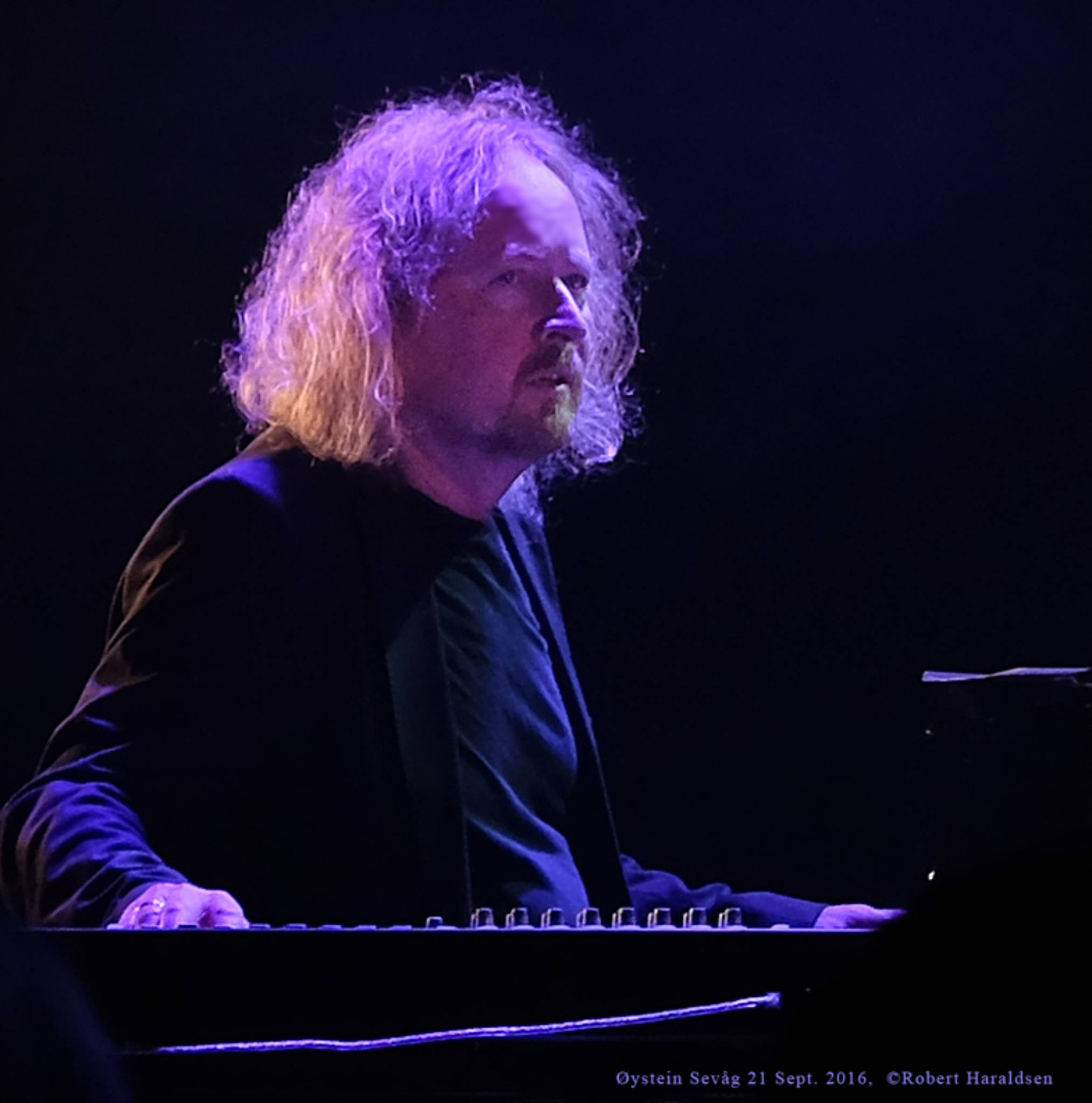 From concert with Bendik Hofseth at Drammen Theater, Drammen, Norway. (Photo Robert Haraldsen / Profero)